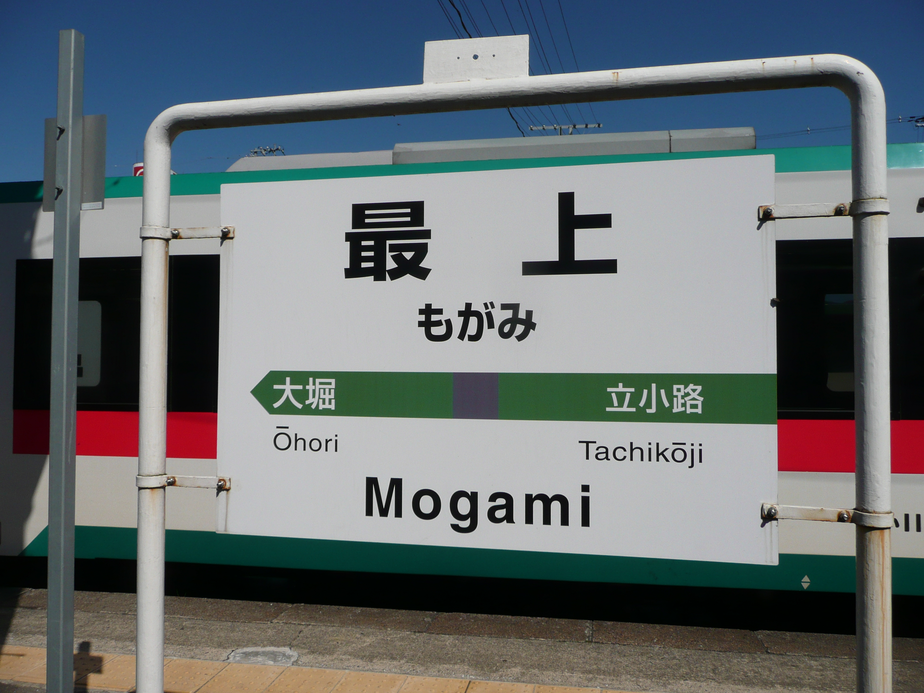 Mogami Station sign